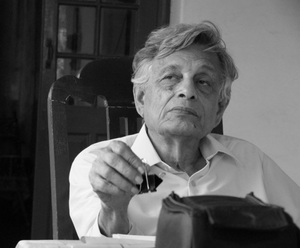 The historian Irfan Habib, at his home in Aligarh.